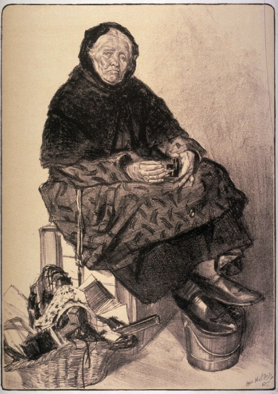 Marchande de lacets by Louis Malteste, lithographic print from L'Estampe moderne, vol. I, Paris, F. Champenois.